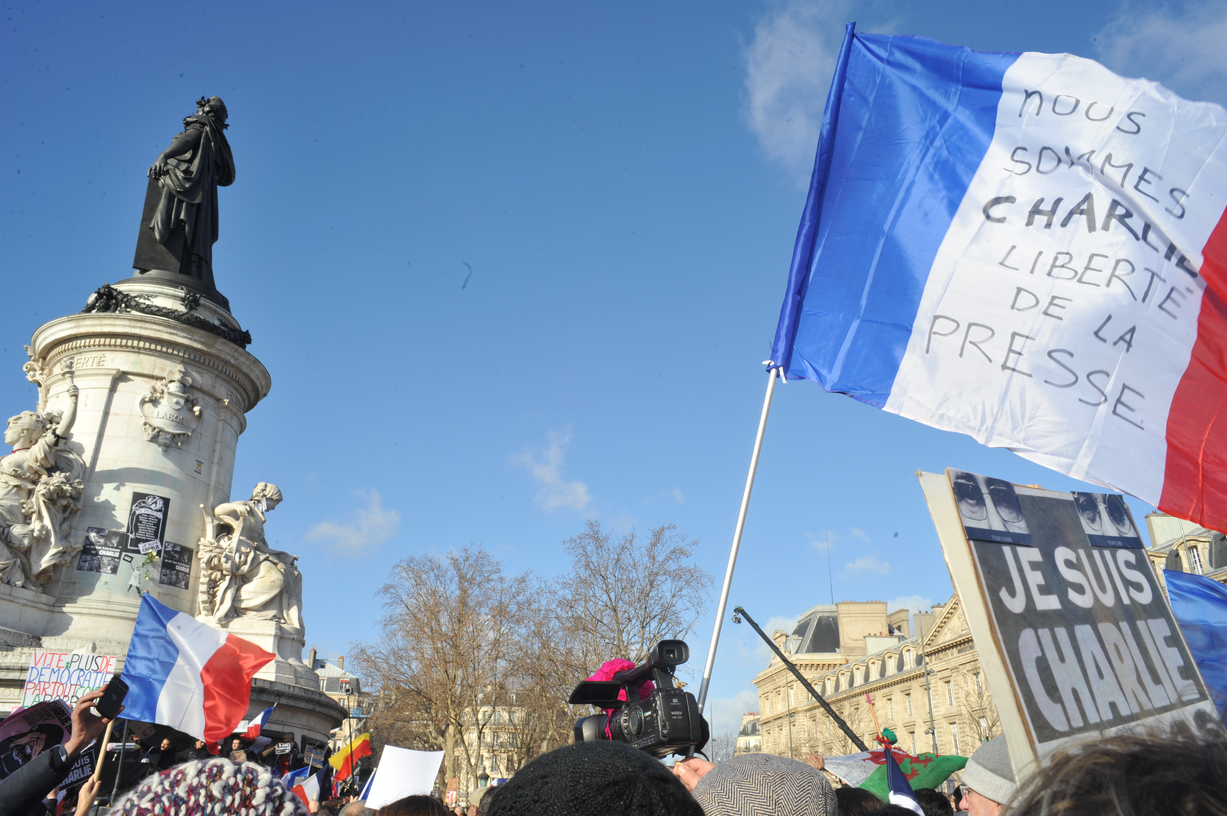 Paris rally in support of the victims of the 2015 Charlie Hebdo shooting, 11 January 2015.